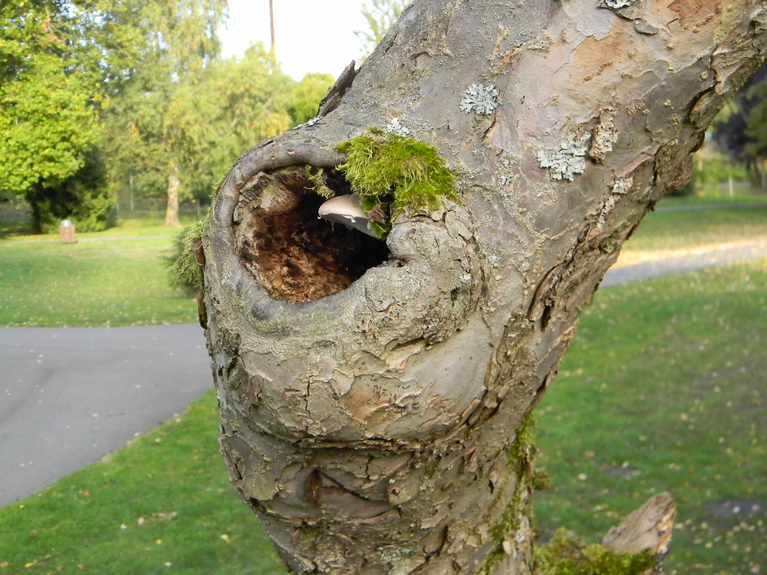 Pleurotus dryinus (Pers. ex Fr.) Kum. Image location: Twin Ponds Park, Shoreline, Washington, USA I see a ring on the lower stipe. Nice clear photos! Recognized by sight: The presence of a veil as well as it’s occurring singly on a living tree is consistent my understanding of this species. In northern California I have most often seen it growing on Madrone trees, but I expect it’s pretty opportunistic. For more information about this, see the observation page at Mushroom Observer.